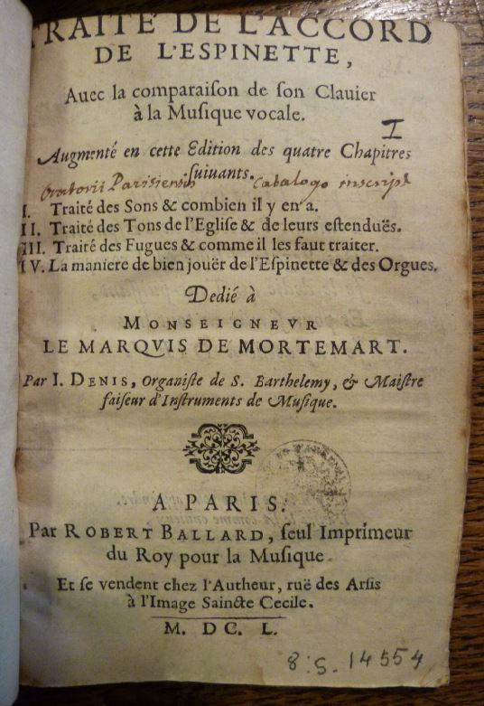 Title page of Jean II Denis's Traité de l'accord de l'épinette, 1650). (Paris, Bib. de l'Arsenal.